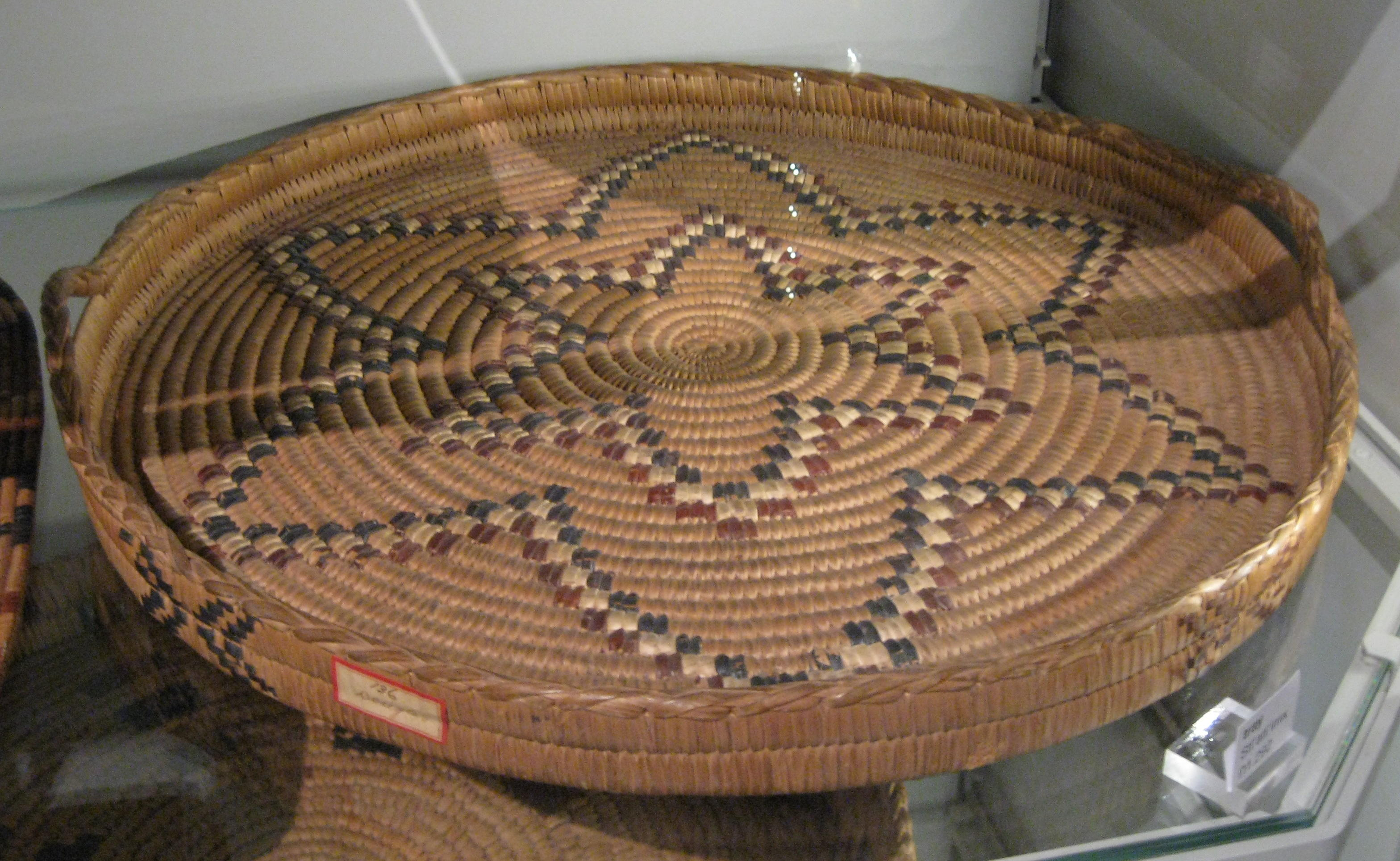 A native Indian Stl'atl'imx people's tray now in the collection of UBC's Museum of Anthropology at Vancouver, Canada. Its catalogue number is D1.292